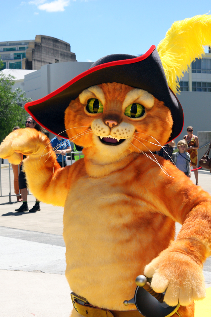 Puss in Boots mascot at Puss in Boots premiere at Moore Park, Fox Studios in Sydney, Australia.